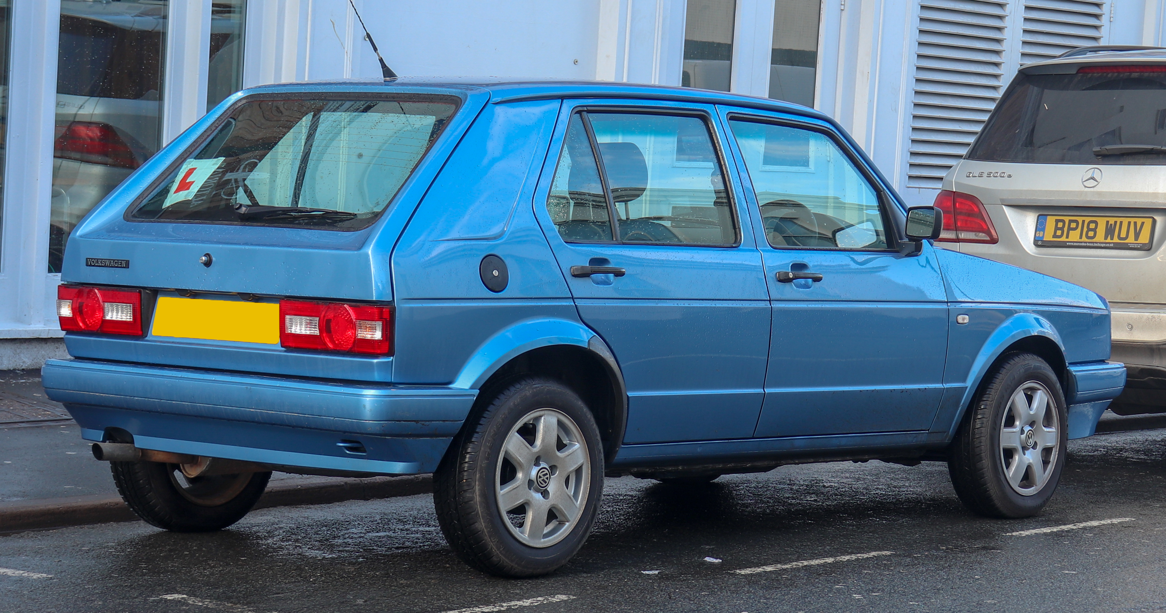 2006 Volkswagen Citi Golf 1.4 Rear (Odd South African import) Taken in Leamington Spa